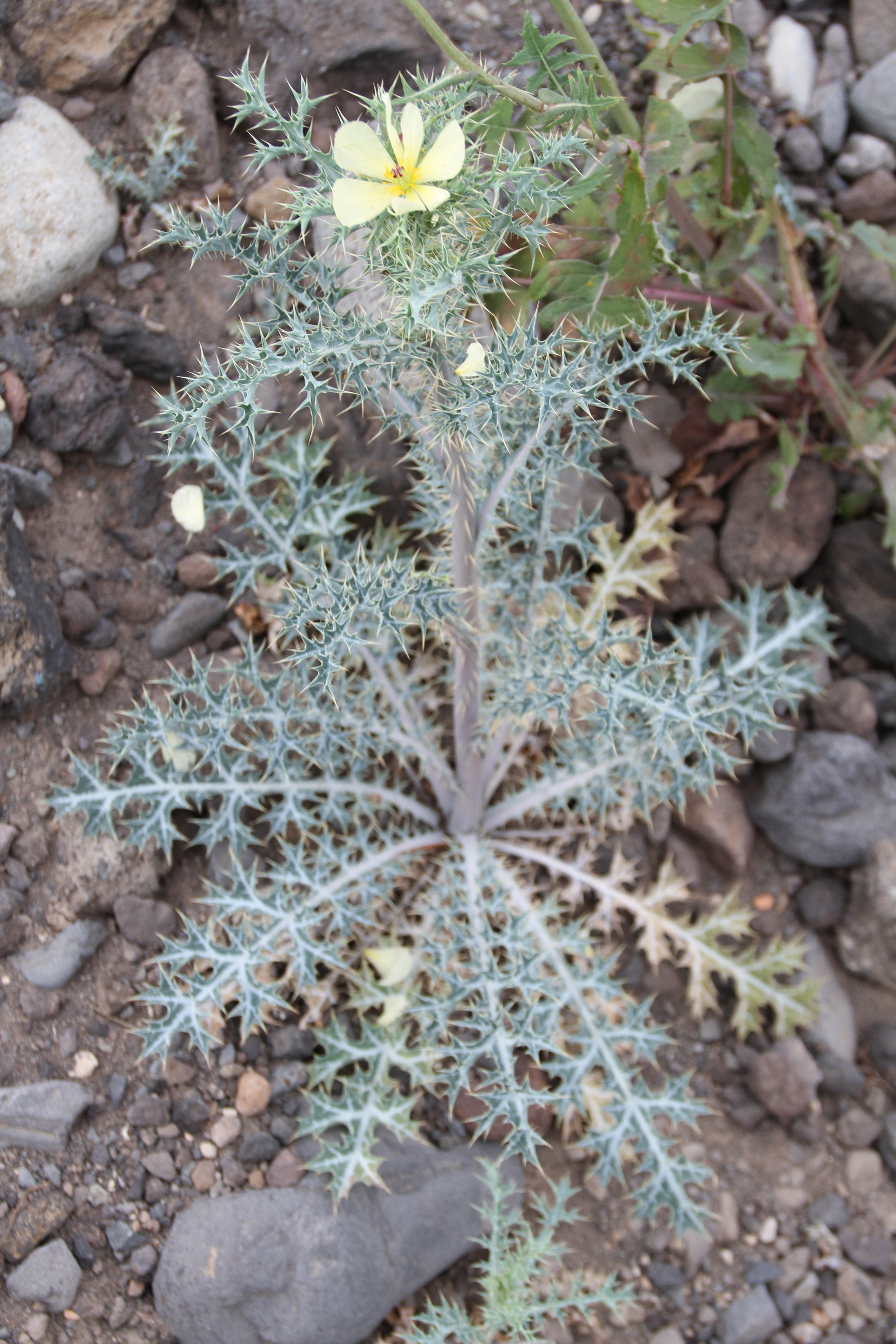 Argemone ochroleuca at the maritime coastl strip immediately south of Los Gigantes settlement, western Tenerife, Spain. At the same location were also A. mexicana, with considerably more dark yellow petals.